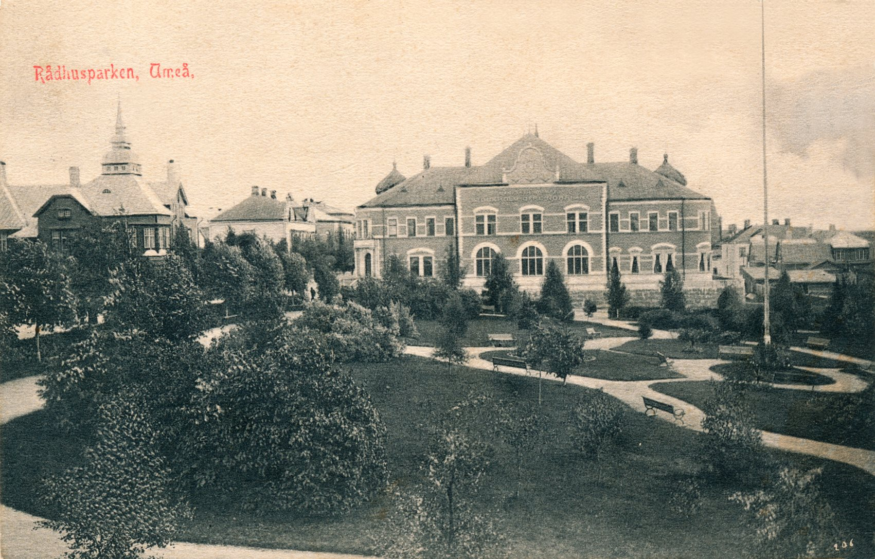 Postcard, stamped 1912, of Rådhusparken in Umeå (Sweden).